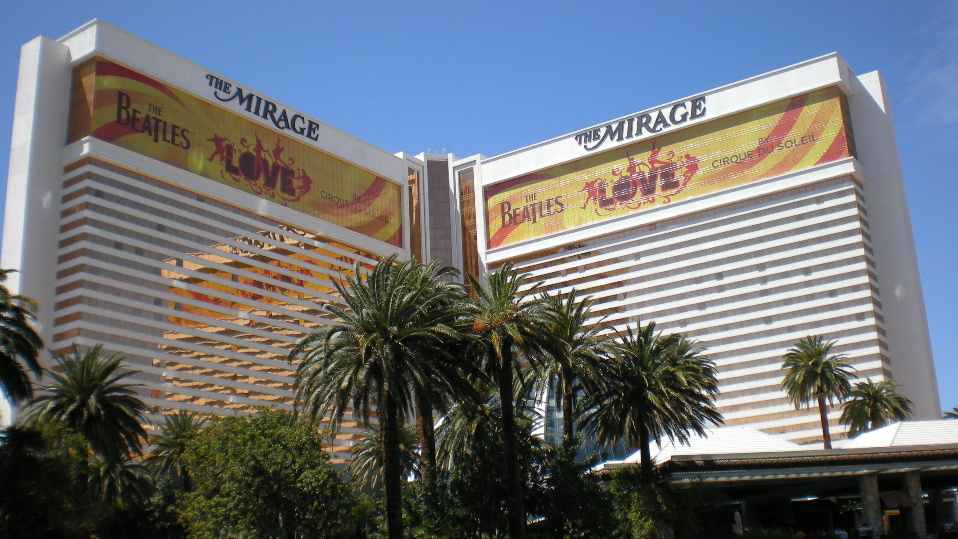 The Mirage